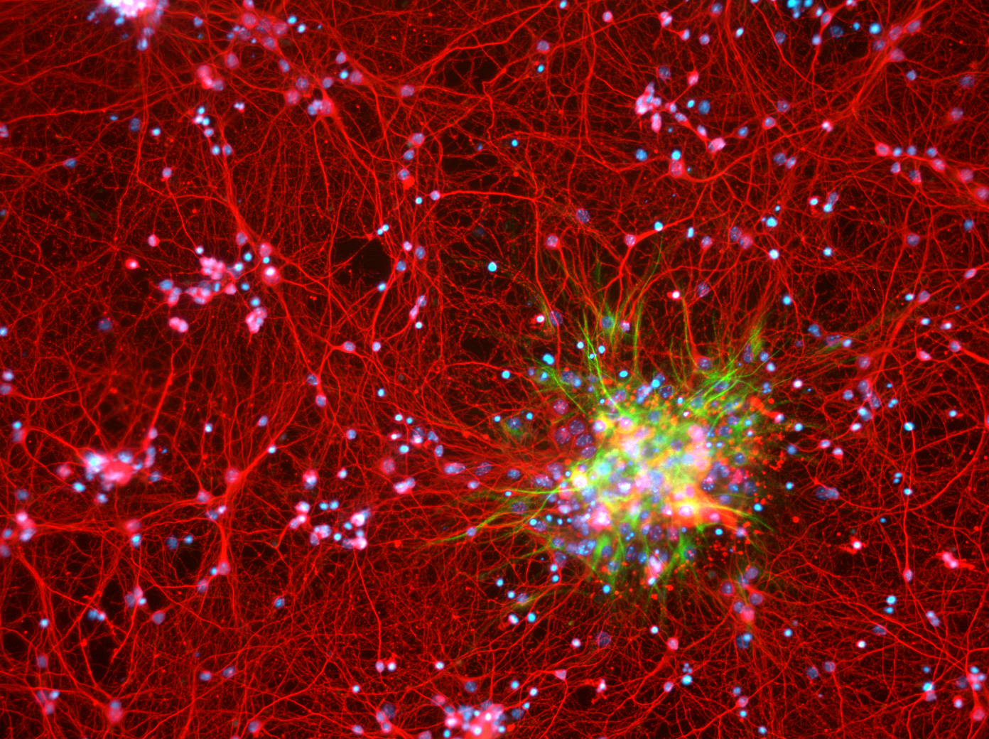 A 10X image of cultured mouse cortical neurons and astrocytes in cell culture. Neurons are stained red (MAP2 protein), while astrocytes are stained green (GFAP). As the presumed seat of consciousness, the infinity of questions still surrounding the brain are as nebulous as those surrounding our infinite Universe. We are but stars in the end; and in the beginning.